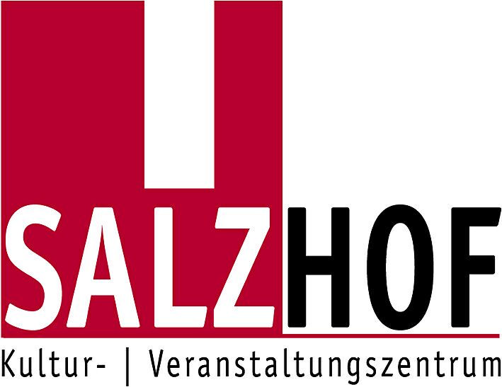 Logo Salzhof Freistadt